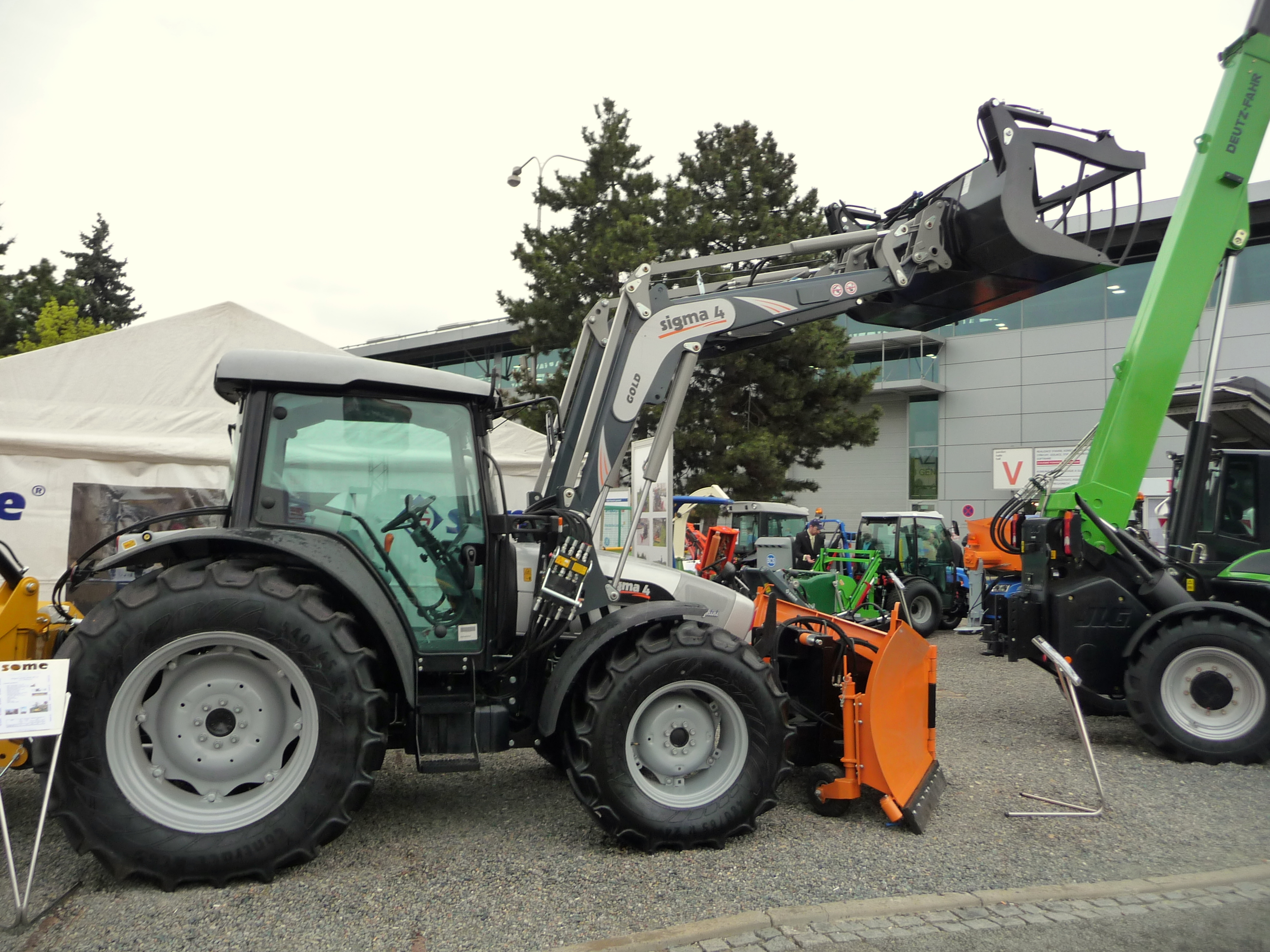 Front loader Sigma 4, Building Fairs Brno 2011 -10 -5 -3 -2 ◄ ► +2 +3 +5 +10